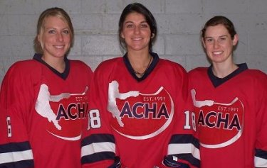 Ashley Rumsey (A), Jolene Rambone (C) and Lauren Slipp (A), the captains for the ACHA Women's Select Team that toured Europe in April of 2010.